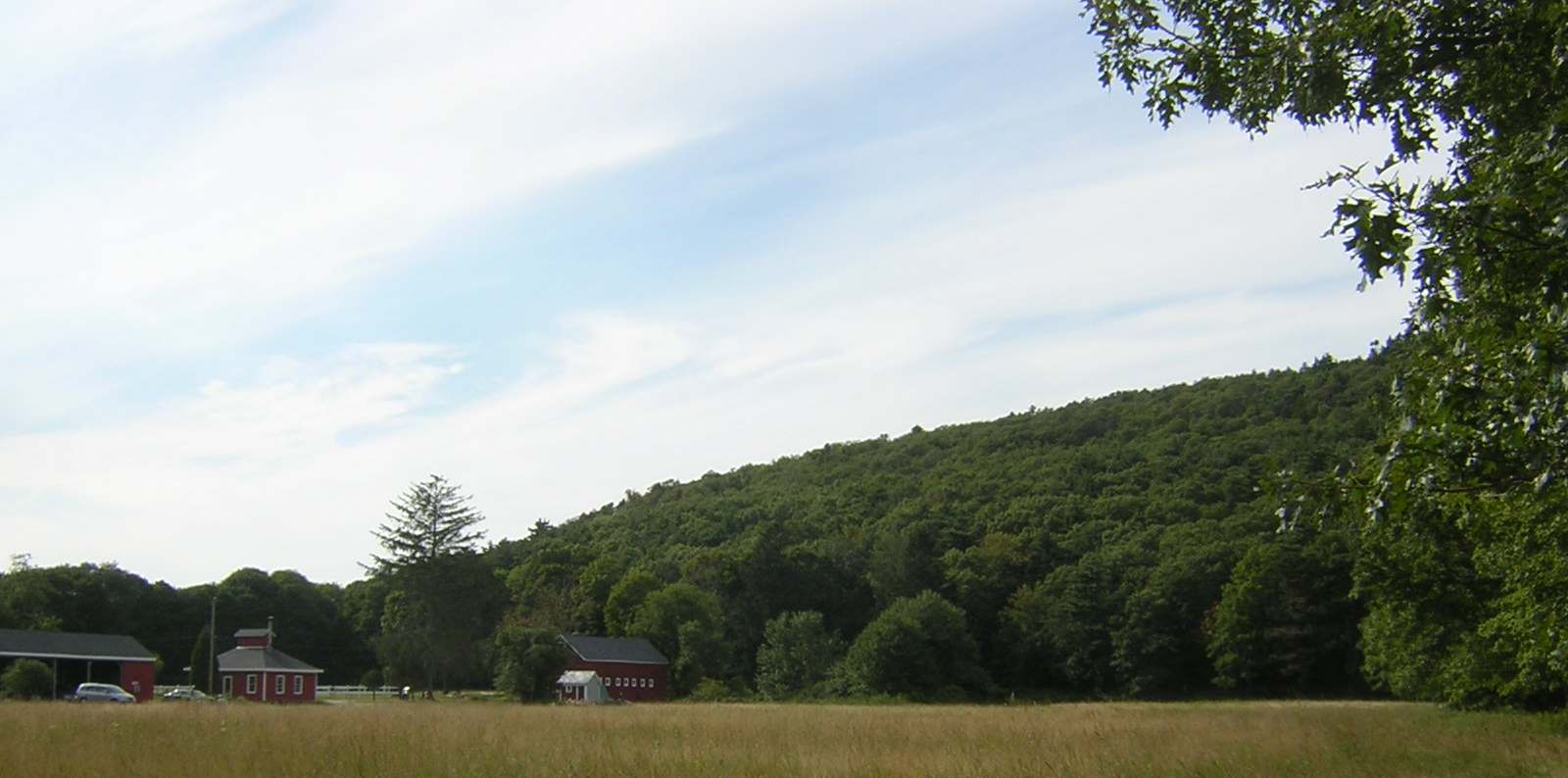 Brookwood Farm, Canton, MA, with Great Blue Hill in the background (nb the NRHP listing show the location as Milton, MA. While some of the fields are in Milton, all of the buildings and all of this photo are in Canton)